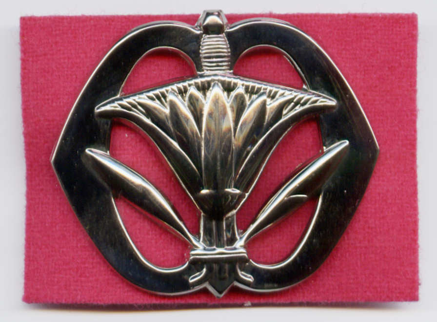 Dutch cap badge of the Militaire Administratie till 2001